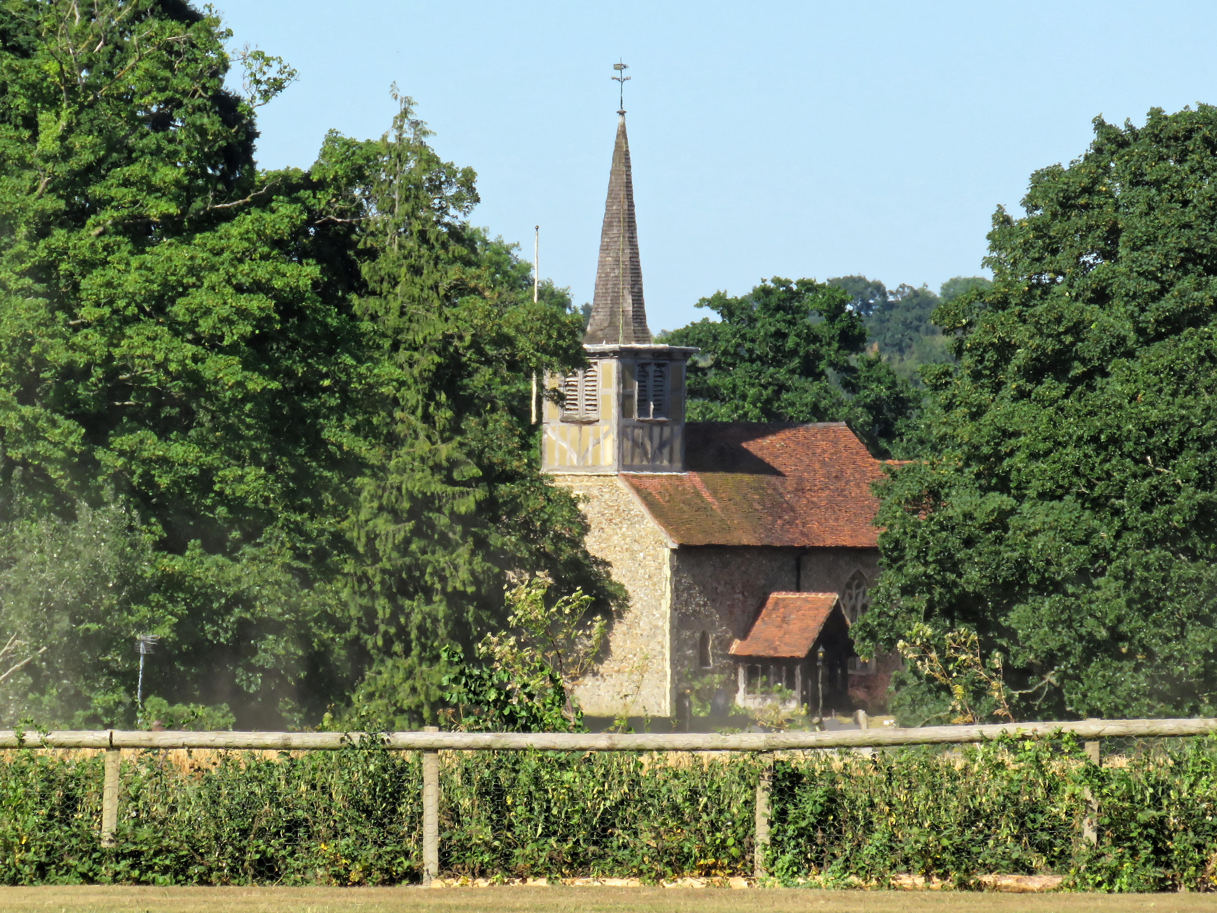 St Mary the Virgin's Church taken from Gaston Green (one third of a mile away) at Little Hallingbury, Essex, England in 2018.Camera: Canon PowerShot SX60 HSSoftware: File lens-corrected, optimized, perhaps cropped, with DxO PhotoLab, and likely further optimized with Adobe Photoshop CS2.